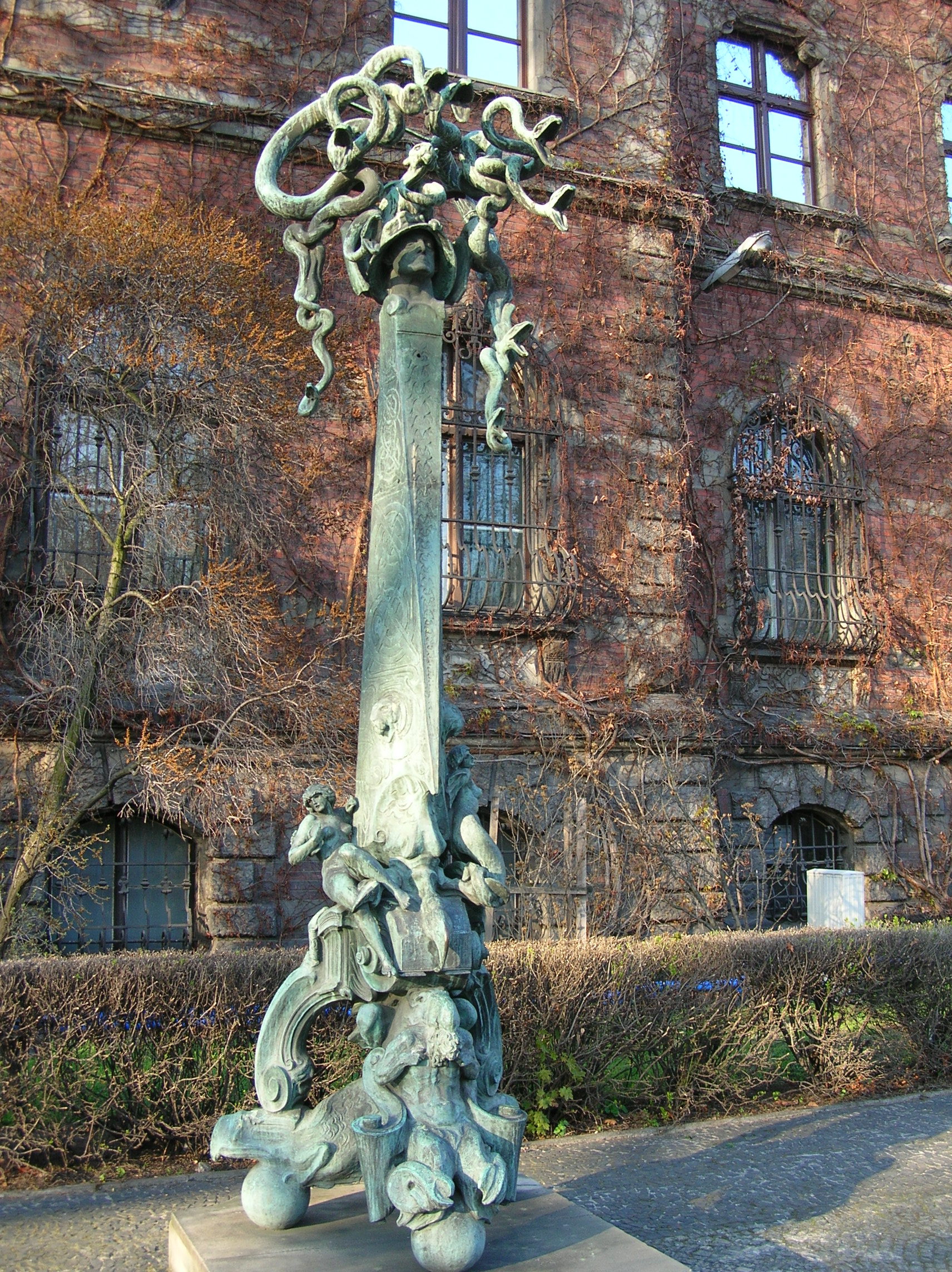 Sculpture by Christian Behrens 1883. Wrocław.